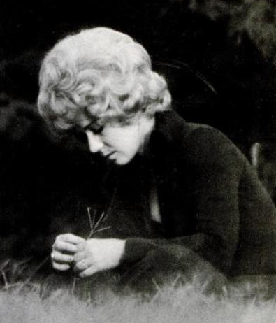 Trade ad for Sammi Smith's single "Help Me Make It Through the Night".To better adapt it to his respective Wikipedia article, the ad was cropped and cleaned in a graphics editing program. The original can be viewed at the source below. - 1970s female hair fashion